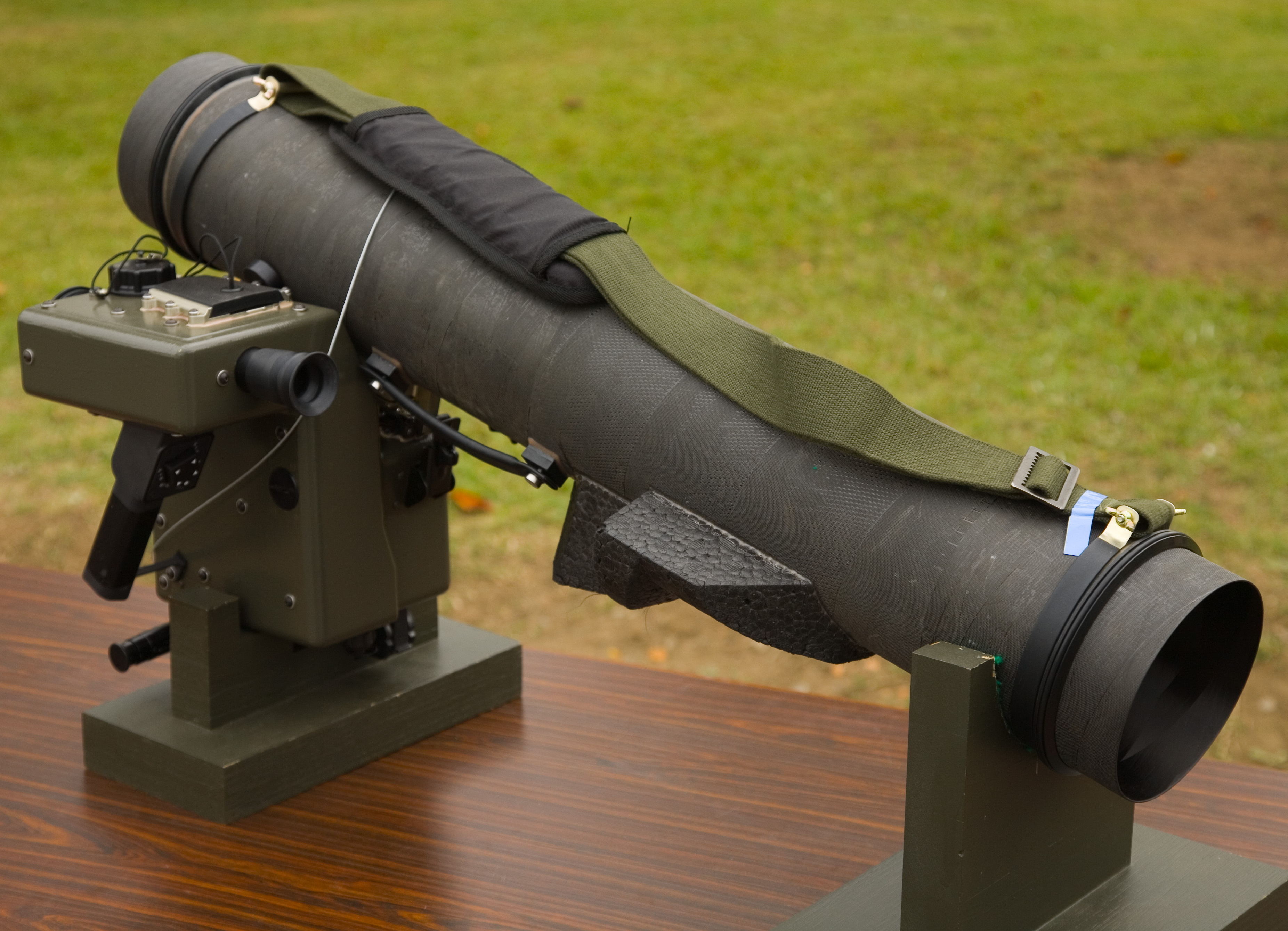 A Japanese ATGM Type 01 LMAT missile on display. The example shown is missing a unit from the top of the control block (possibly night vision).